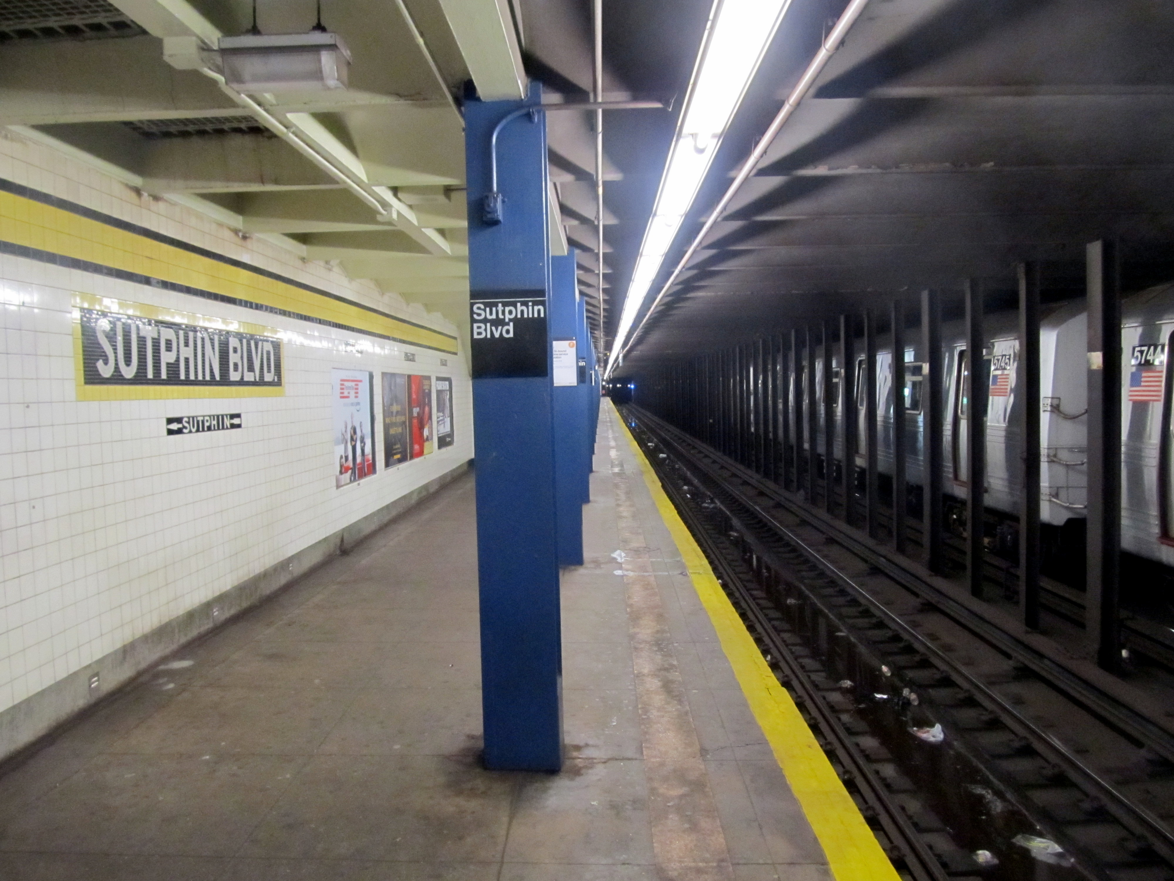 Eastbound platform at Sutphin Boulevard station in December 2017